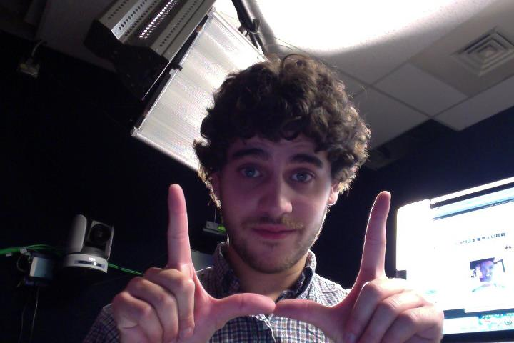 Demonstration of finger goal post.